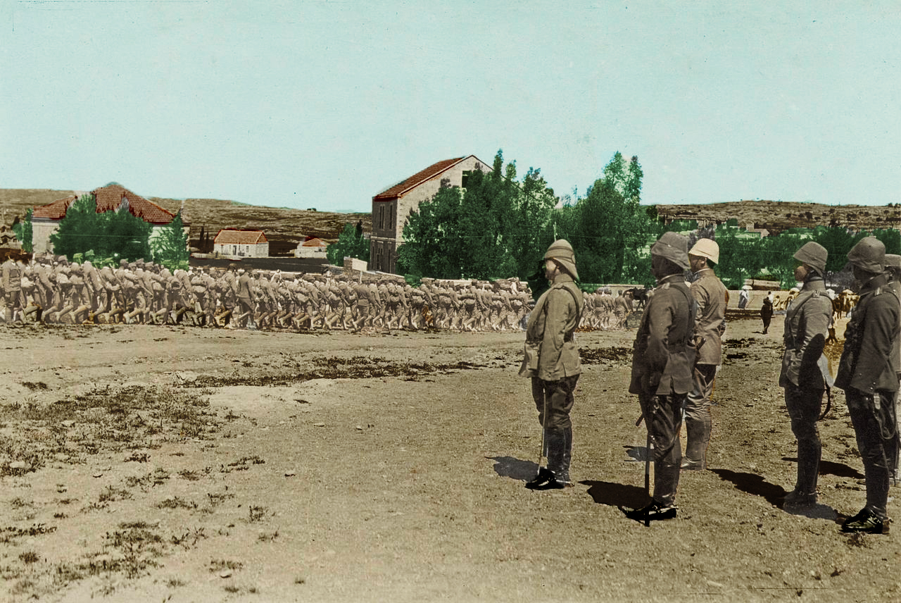 Jamal [Cemal] Pasha II inspecting the Austrian troops entering Jerusalem, 1916. LC-DIG-ppmsca-13709-00081 (digital file from original on page 23, no.80)